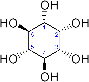 chemical structure of inositol